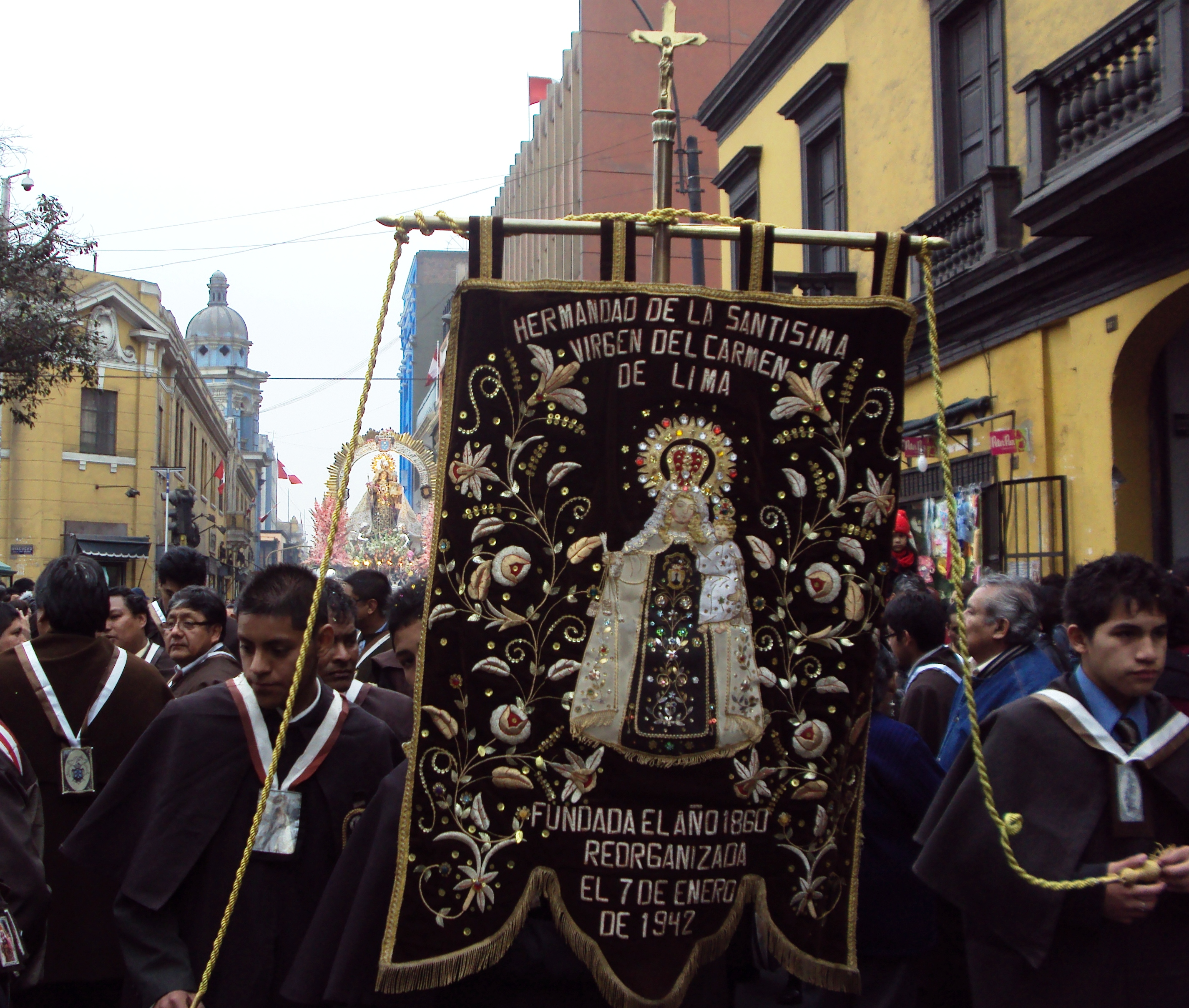 Procession of Our Lady of Mount Carmel in Lima, Peru 2010.